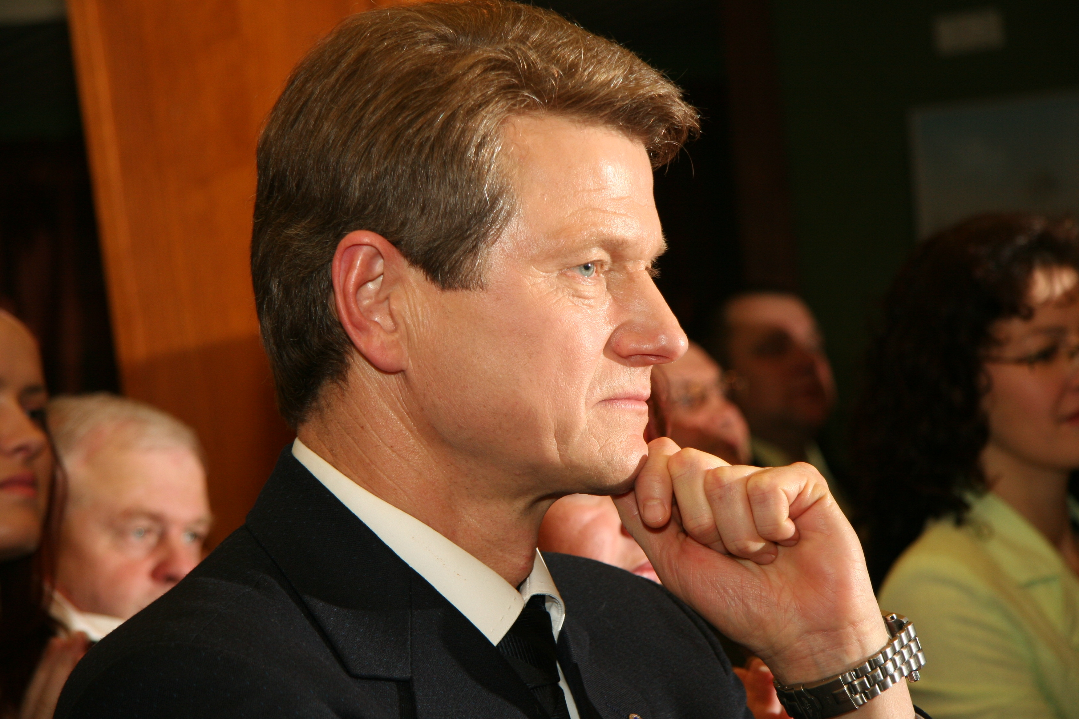 Rolandas Paksas